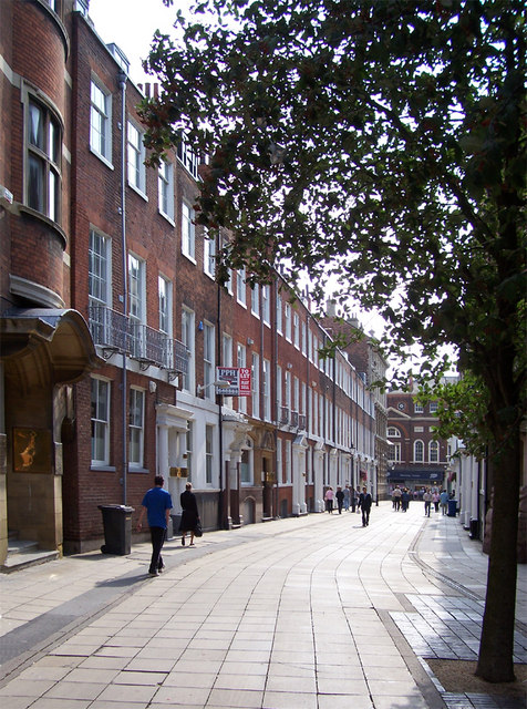 Parliament Street. Picture taken from Alfred Gelder Street looking South.